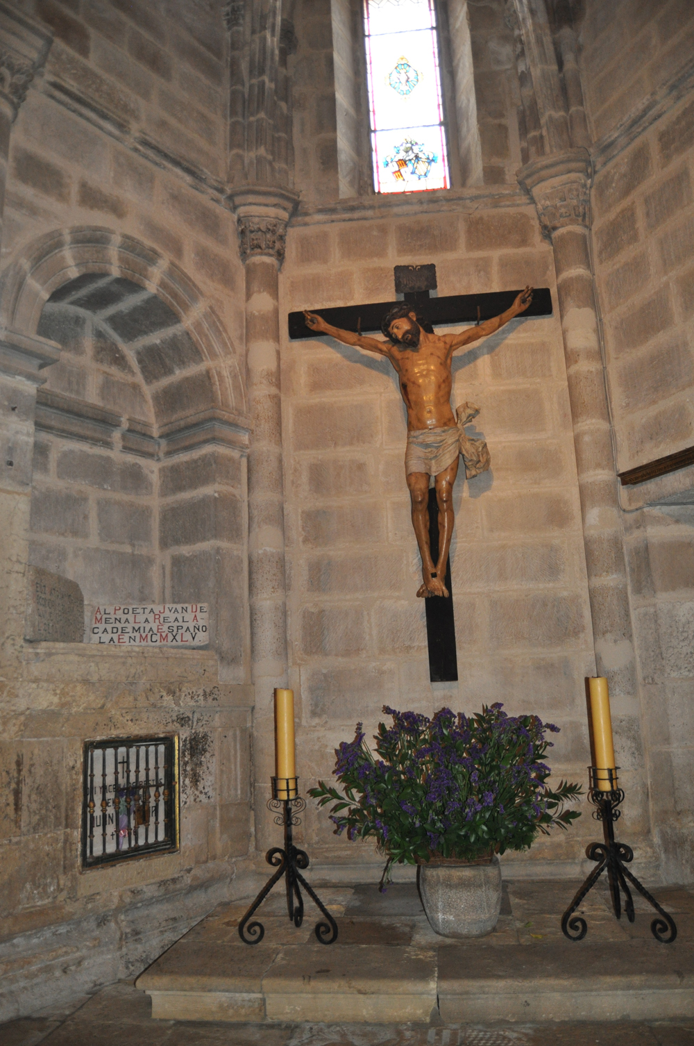 Tumba del poeta Juan de Mena junto al Cristo de Cisneros - Villa de Torrelaguna (Madrid) - Iglesia de Santa María Magdalena